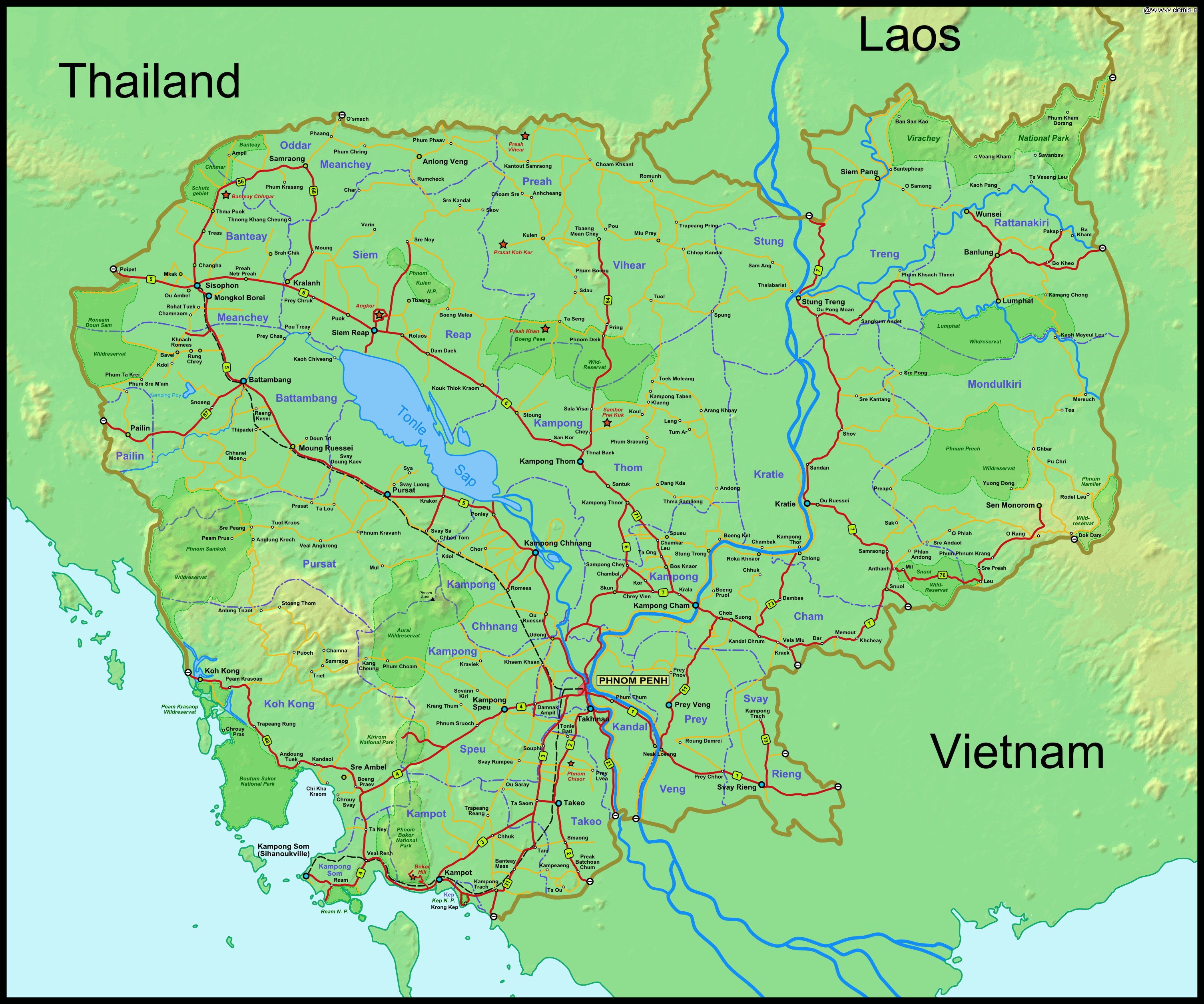 Map of Cambodia (Version 1.06)